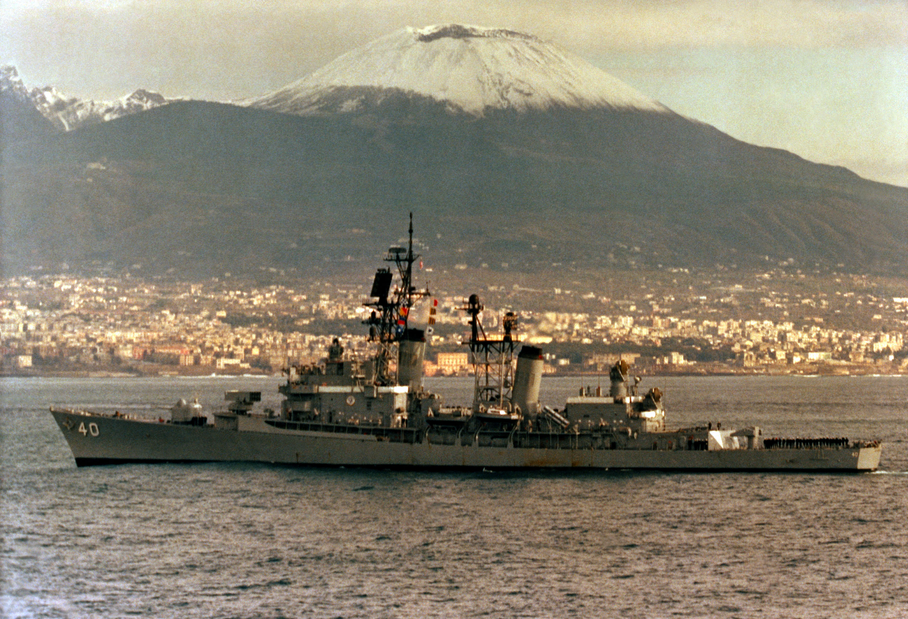 The U.S. Navy guided missile destroyer USS Coontz (DDG-40) underway just offshore on 1 June 1980.